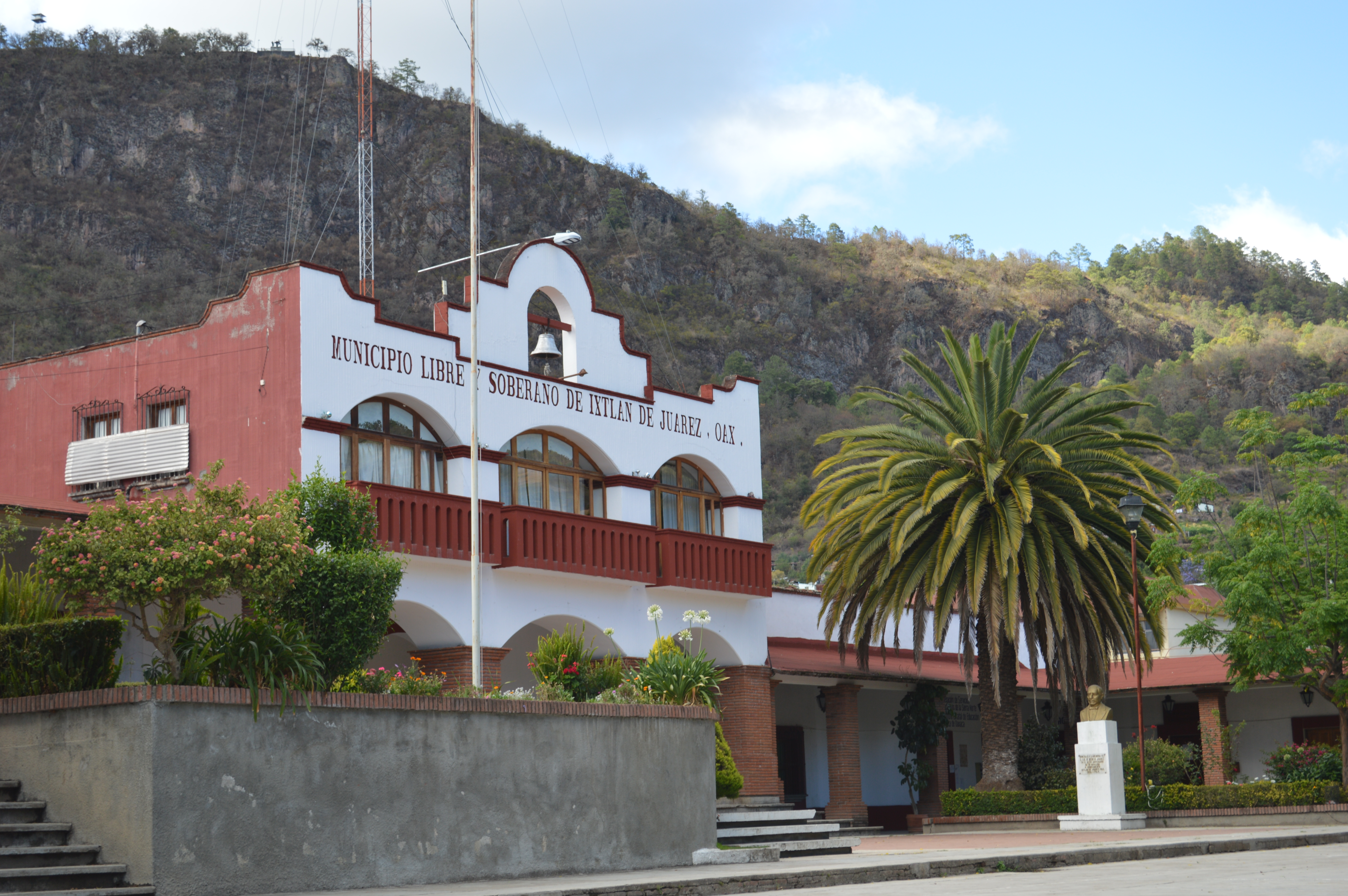 Municipal palace in Ixtlan de Juarez, Oaxaca